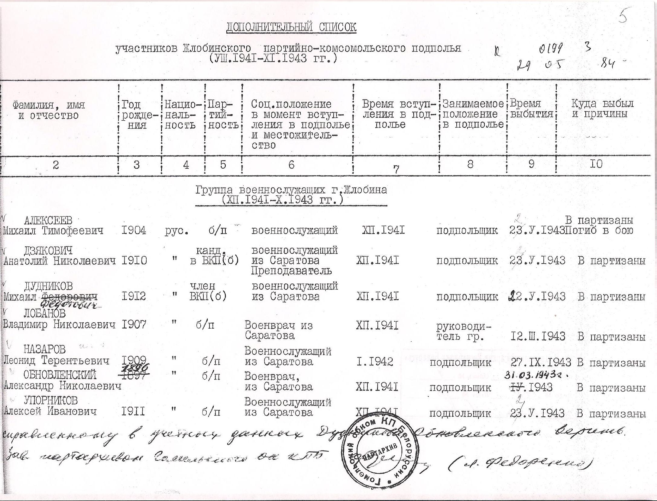 list of underground